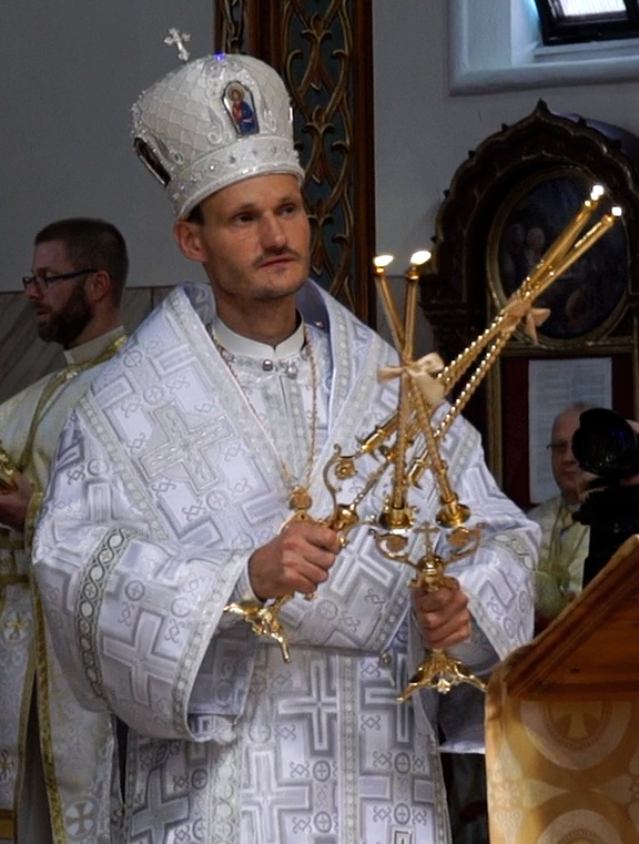 Bishop of Toronto - Marian Andrej Pacak